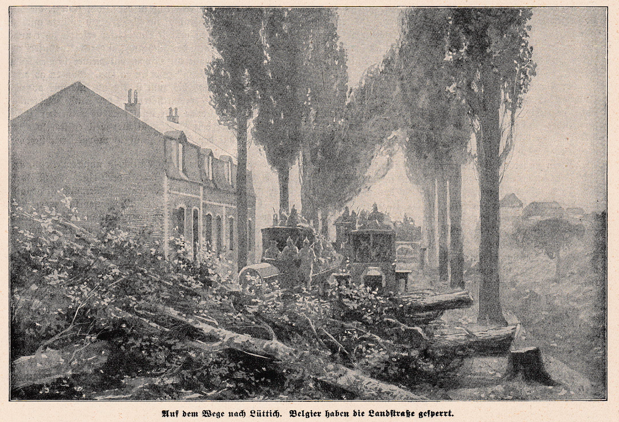 from Der Krieg 1914-19 in Wort und Bild, published 1919